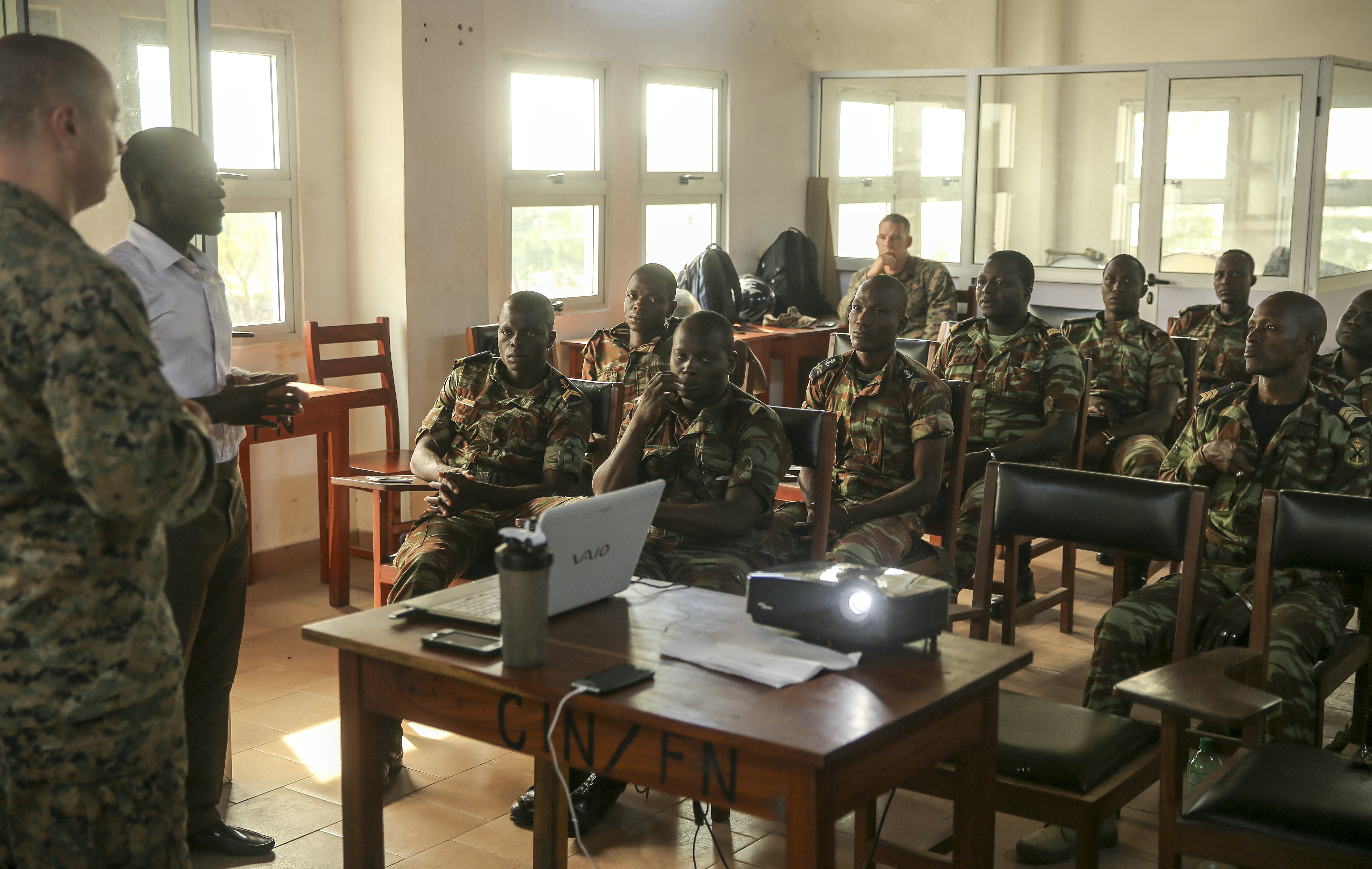 Sgt. Mateusz Kaczynski, a maintenance management chief with Special Purpose Marine Air-Ground Task Force Crisis Response-Africa, addresses a class of non-commissioned officers from the Benin Navy at Benin Naval Forces Headquarters, Cotonou, Benin, October 24, 2016. The U.S. Marine Corps theater security cooperation team with SPMAGTF-CR-AF spent two weeks teaching an NCO development and maintenance management course during their time training with the Benin Navy. (U.S. Marine Corps photo by 1st Lt. Eric Abrams /released) Unit: U.S. Marine Corps Forces Europe and Africa